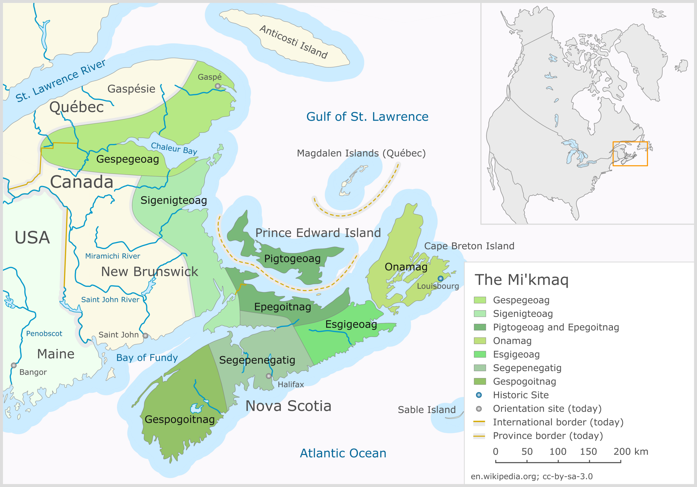 Former settlement areas of the seven Mi'kmaq branches